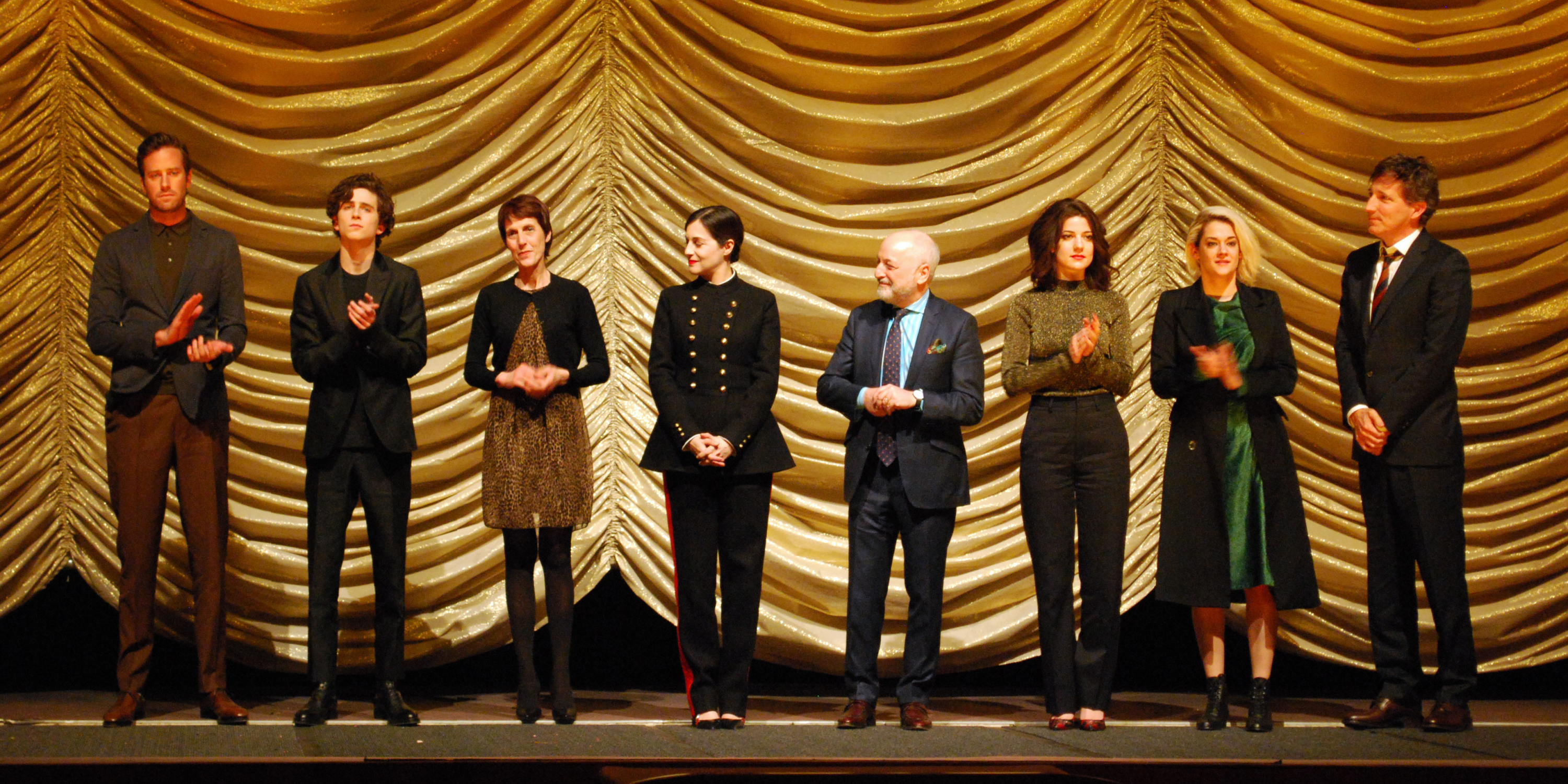 Showing Call Me By Your Name @Berlin Film Festival 2017